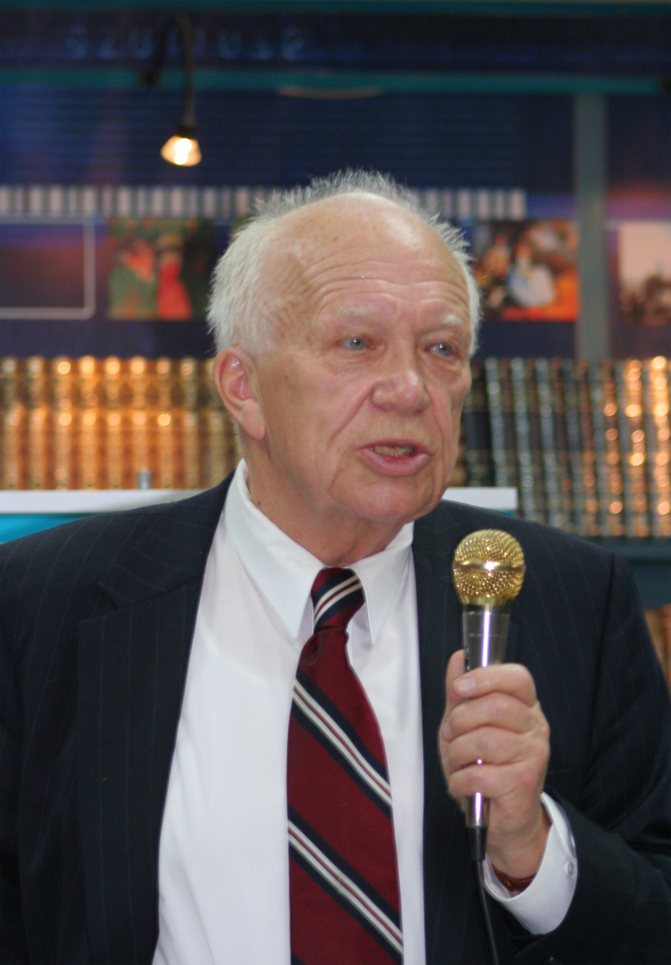 Sergei Khrushchev, son of Nikita Khrushchev, presents his books about his father in Moscow.